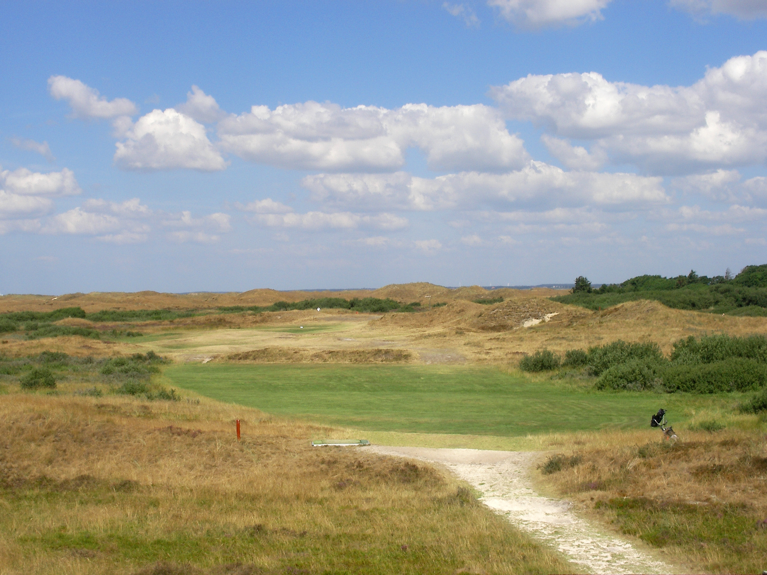 View of Fanø Golf Links, Denmark, from 9th Tee